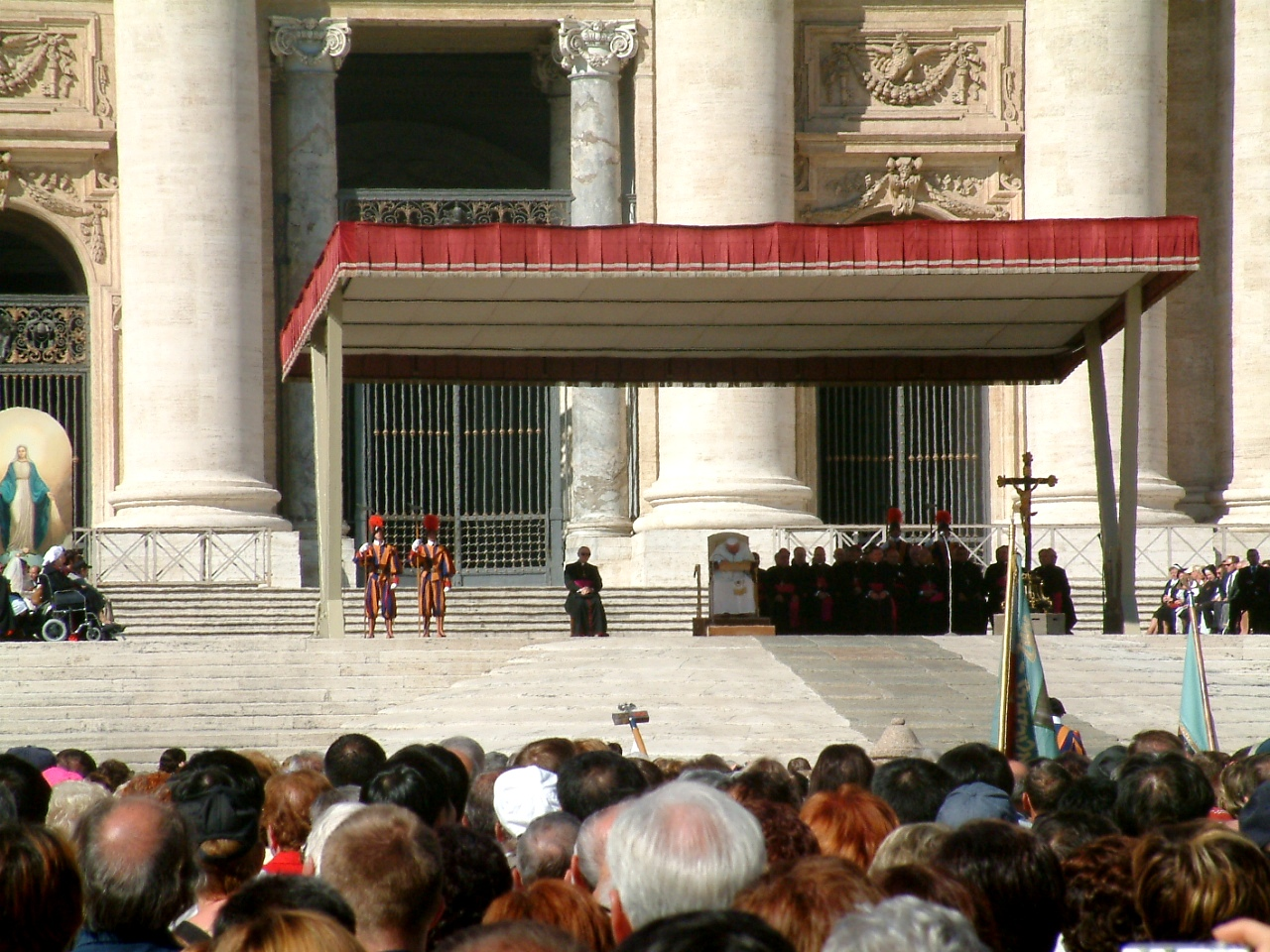 Pope John Paul II during general audiency, St. Peter Sq., Vatican.